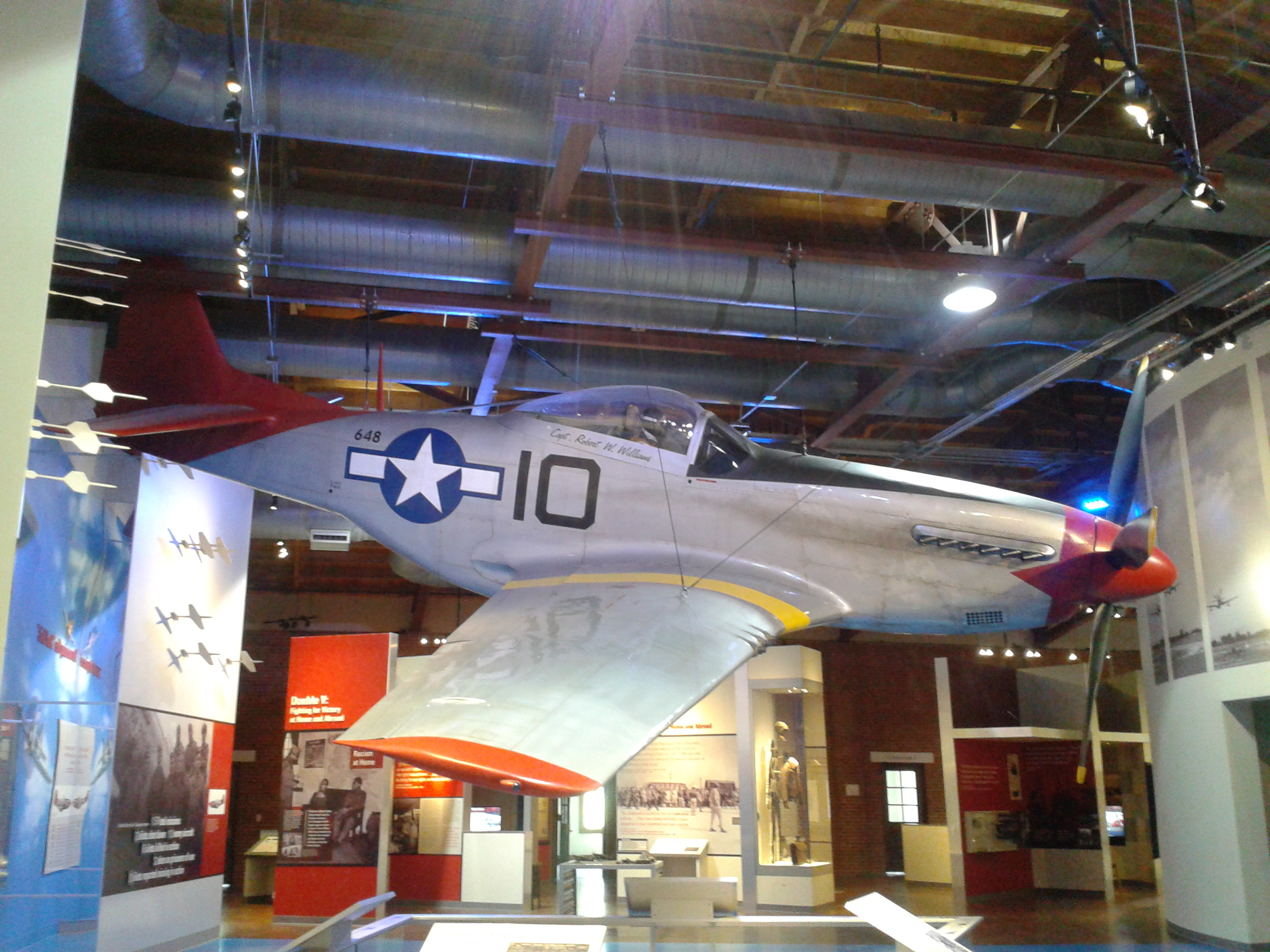 Tuskegee Airmen National Historic Site, Tuskegee, Alabama